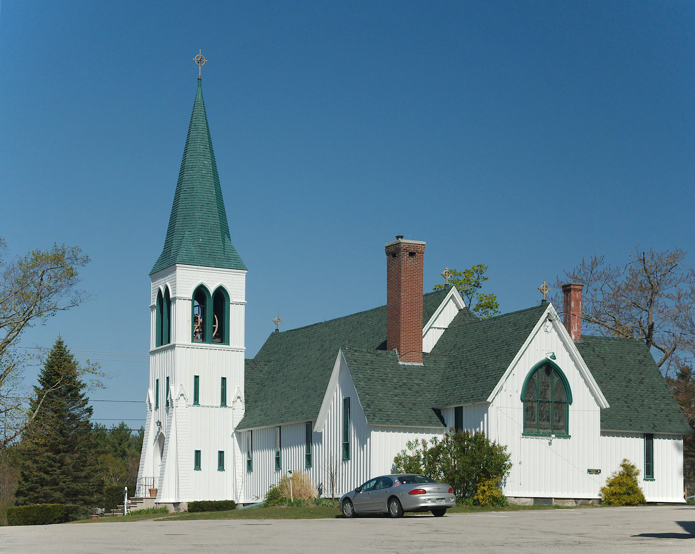 St. John the Baptist Church, built between 1874 and 1877, is an historic Episcopal church located at 118 High Street in the village of Sanbornville in Wakefield, New Hampshire, in the United States.